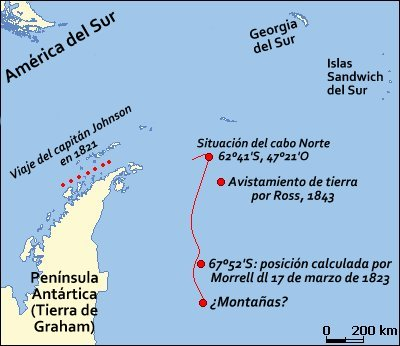 Map of Antarctica and the supposed coastline of New South Greenland as described by Benjamin Morrell in red